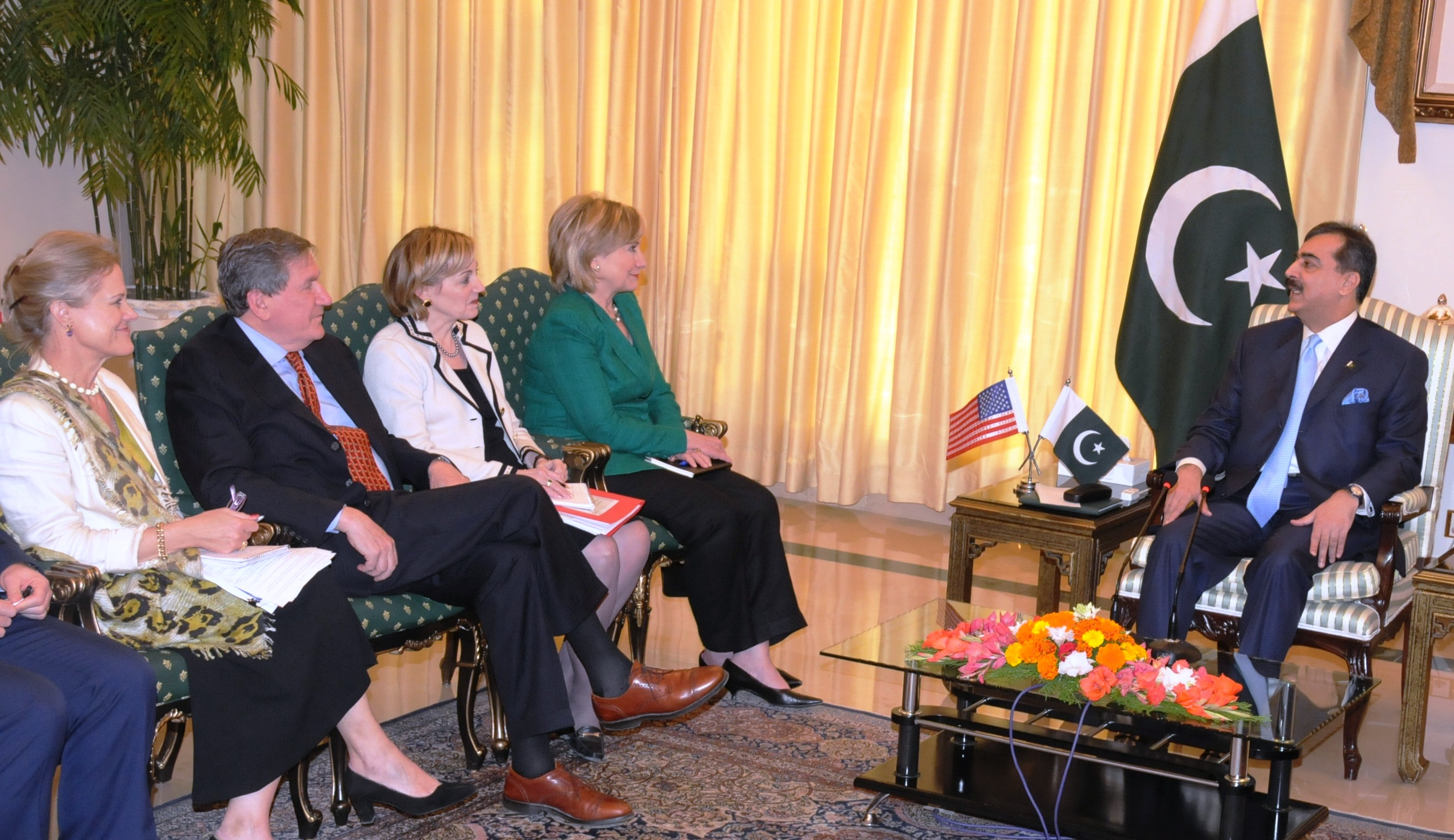 U.S. Secretary of State Hillary Rodham Clinton meeting with Pakistani Prime Minister Yousaf Raza Gillani at the Prime Minister's House. U.S. Ambassador to Pakistan Anne W. Patterson, U.S. Special Representative for Afghanistan and Pakistan Richard Holbrooke, and Senior Coordinator for Economic and Development Assistance Robin Raphel also attended the meeting